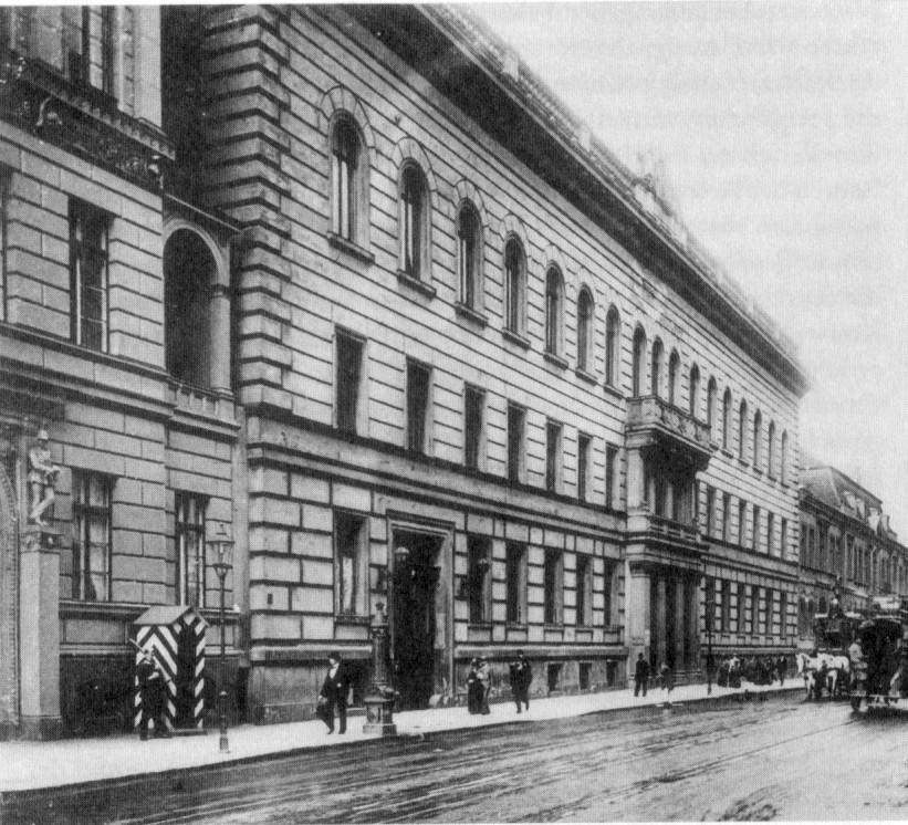 Temporary location of the german parliament (the Reichstag) 1871–1894.